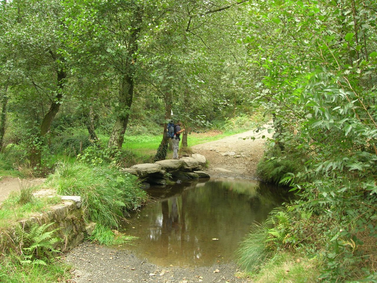 Stone bridge for pedestrians in the Way of Saint James over Catasol river, a tributary of Furelos river. It´s in the place of Raído, parish of O Barreiro, municipality of Melide, A Coruña province, Galicia, Spain.